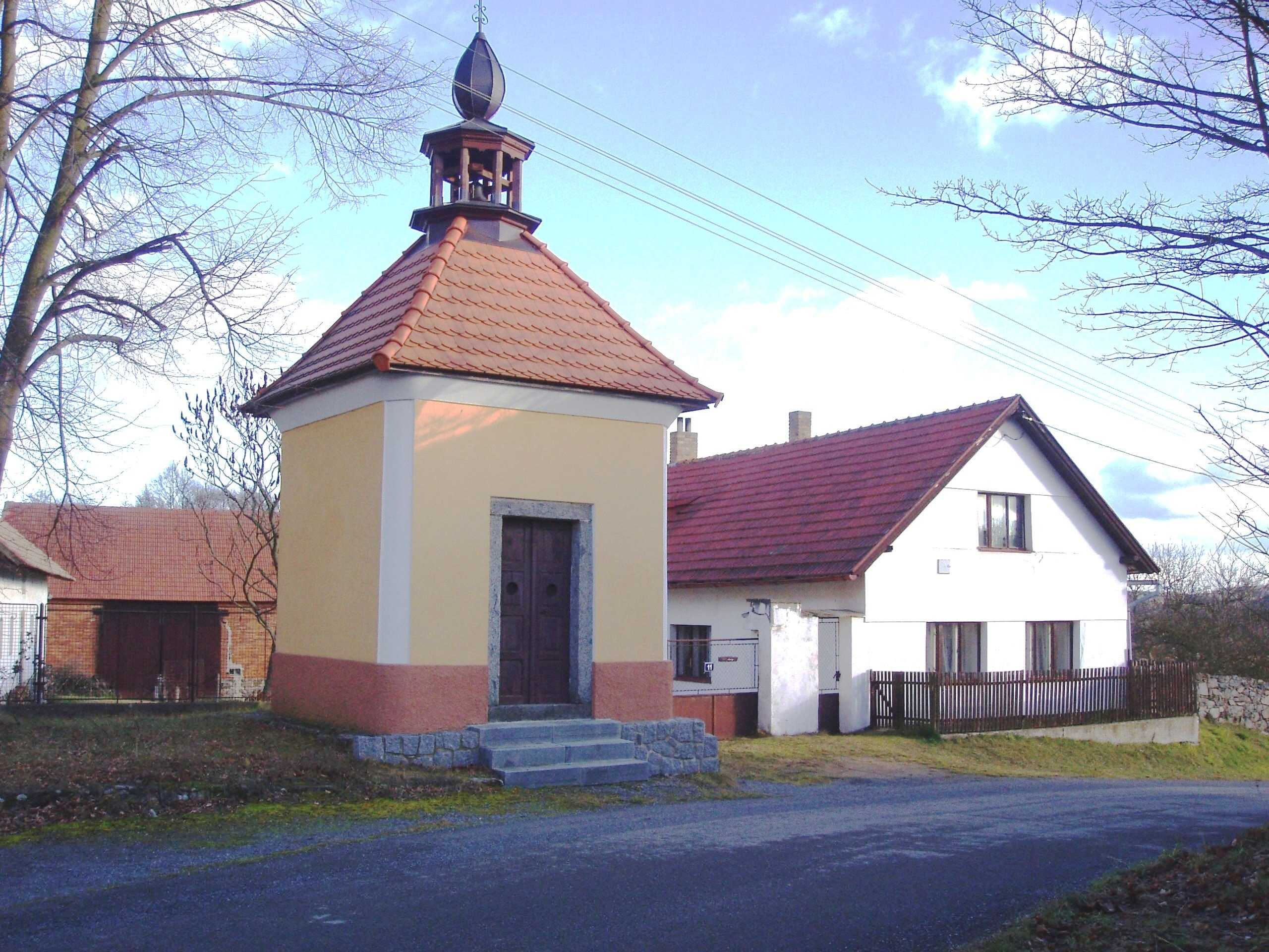 Kaple v obci Drsník